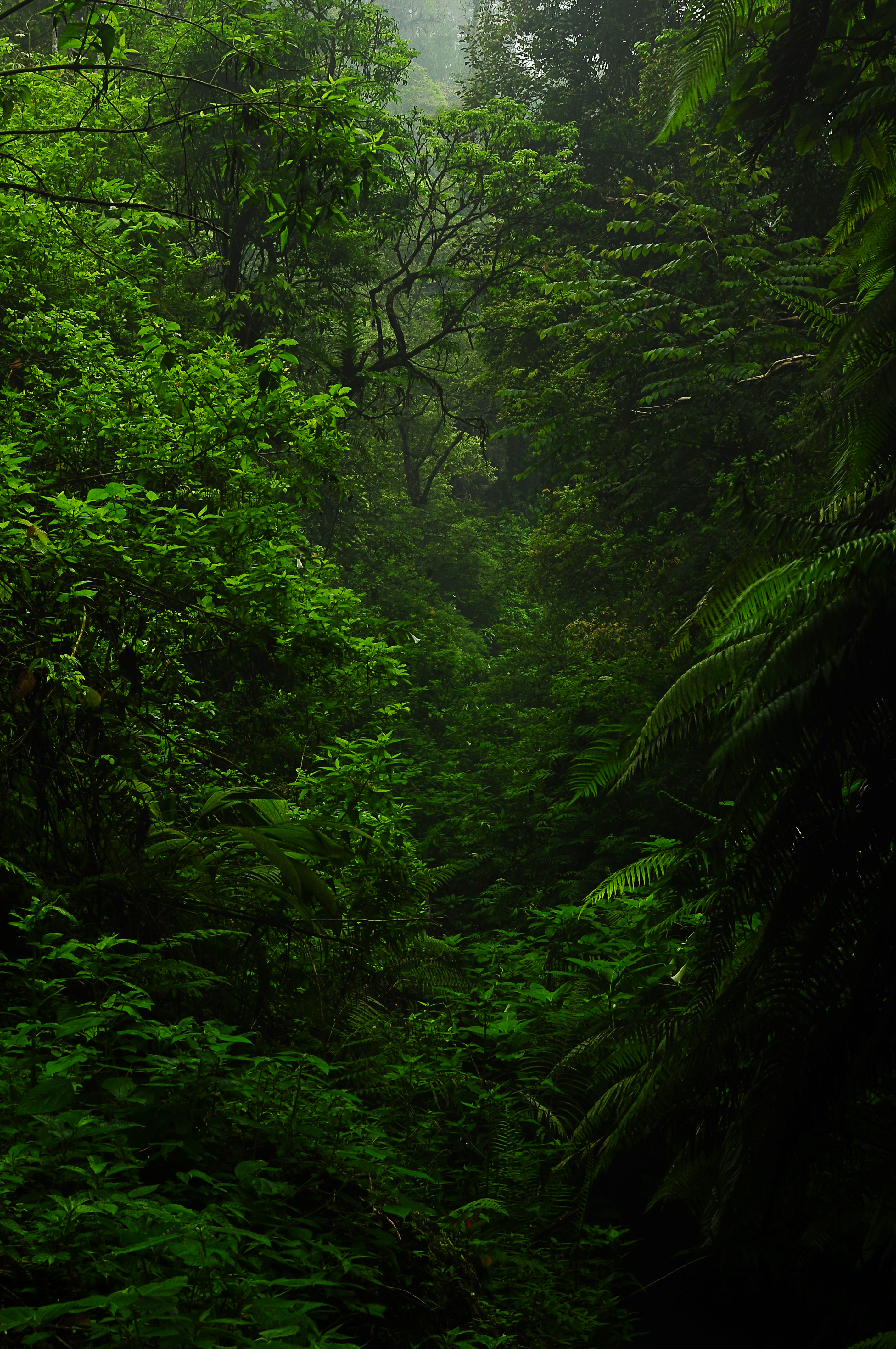 tropical rainforest is one of the most important ecosystems on earth, it supply fresh air, clean water and good habitat for a lot of animal. save the rainforest will save our earth